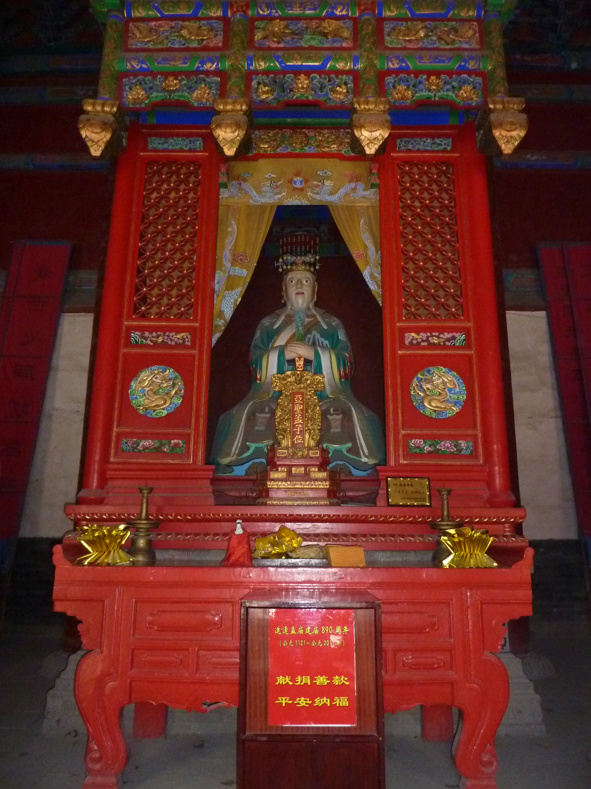 Yasheng Dian ("Hall of the Second Sage", i.e. Mencius), the main sanctuary of the Temple of Mencius in Zoucheng.